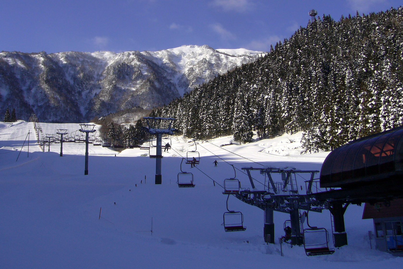 Mt.Hyonosen view from Hyonosen International Ski Resort in Yabu, Hyogo prefecture, Japan